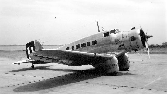 A Northrop RT-1 (designation of US Coast Guard of Northrop Delta).